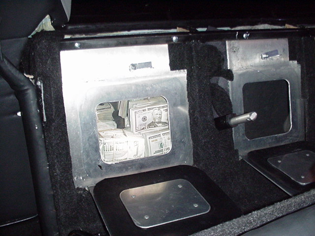 Trap compartment inside limo owned by BMF; Black Mafia Family article